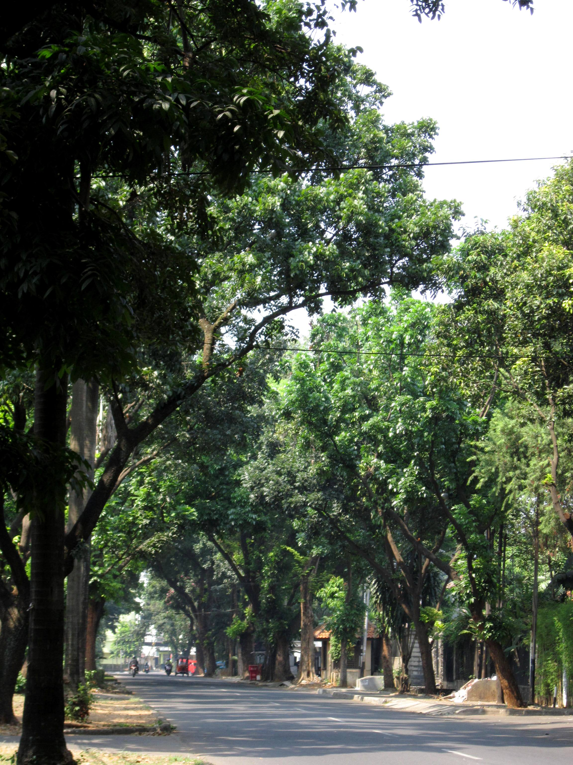 Mahogany trees by a street in Jakarta.